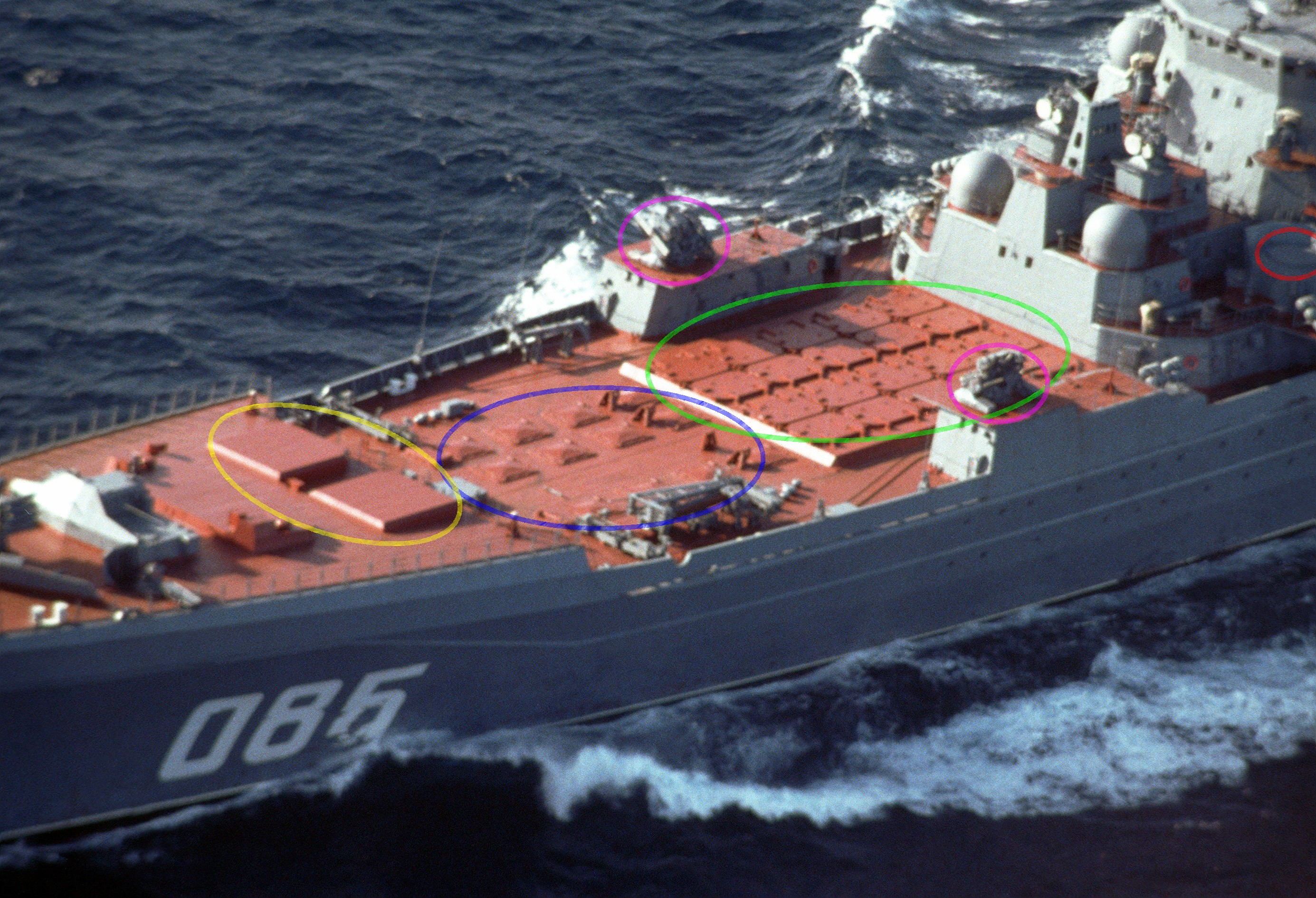 A view of SA-N-6 vertical missile launchers and SS-N-19 cruise missile launchers on the bow of the Soviet Kirov class nuclear-powered guided missile cruiser KALININ. 2 CADS-N-1 2 pop-up (lowered) SA-N-4 surface-to-air missile (SAM) launchers (one visible) 20 SS-N-19 cruise missile launchers 12 SA-N-6 surface-to-air missile (SAM) launchers 2 SA-N-9 surface-to-air missile (SAM) vertical launchers